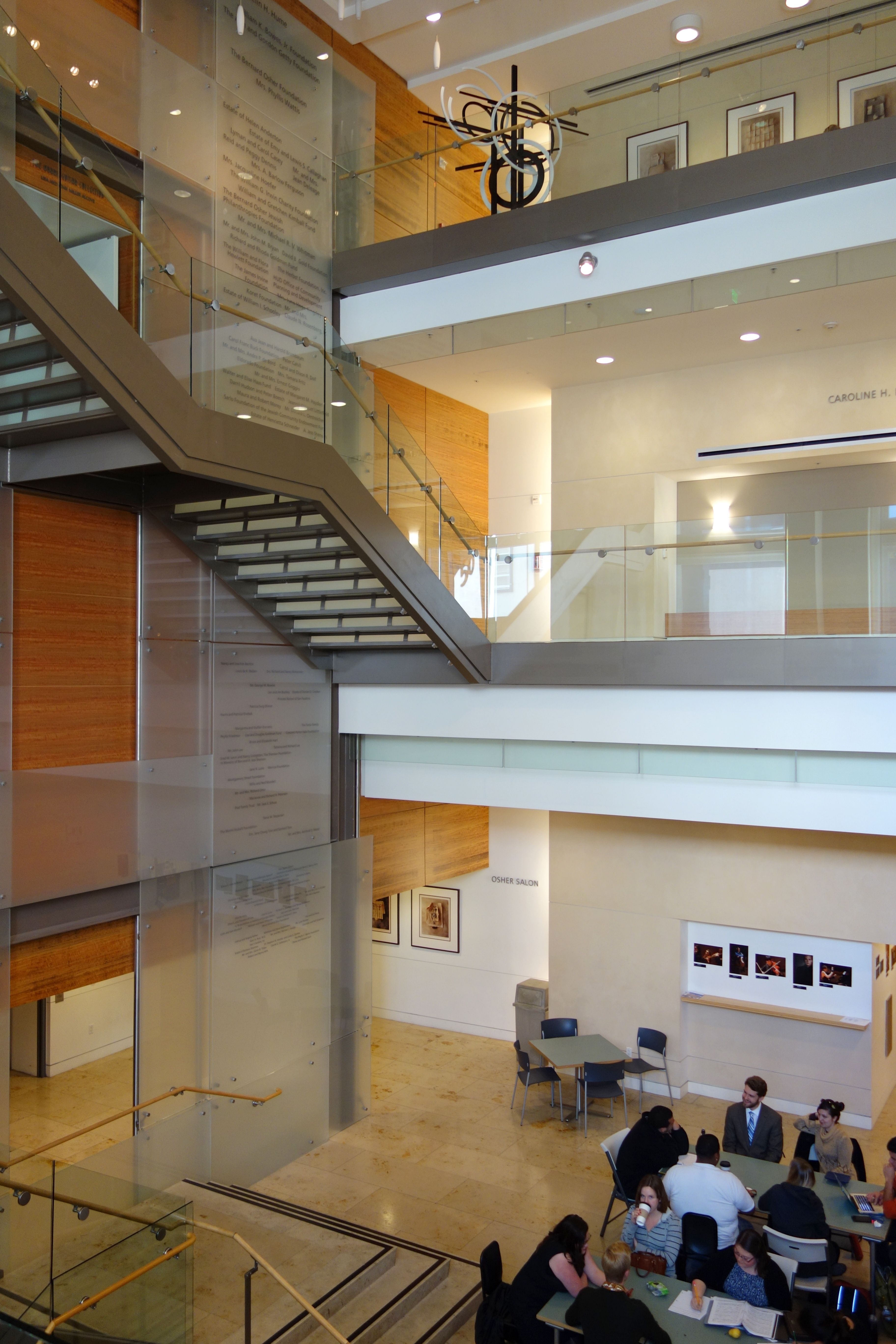 San Francisco Conservatory of Music, 50 Oak Street, San Francisco, California, USA.